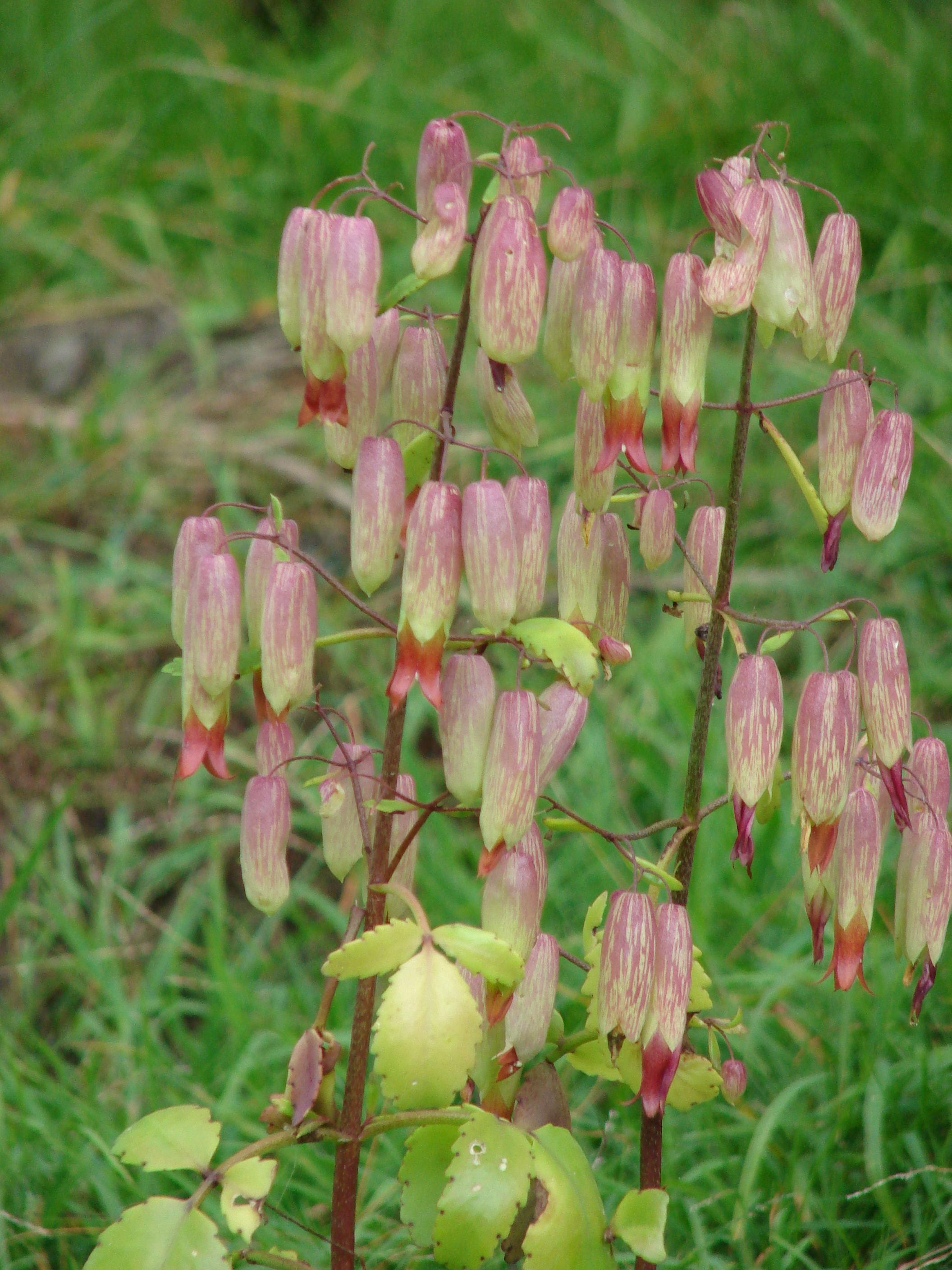 Kalanchoe pinnata (flowers and leaves). Location: Maui, Kula